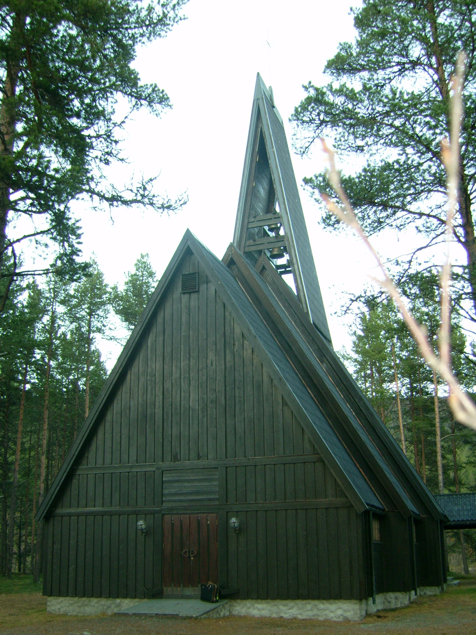 Espedalen Mountain Church, Sør-Fron, Norway